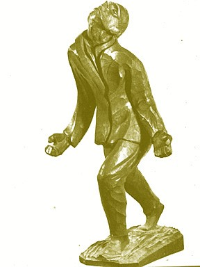 Leoš Kubíček - Desperation